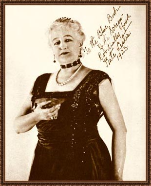 Publicity photo of Kate Lester from The Blue Book of the Screen by Ruth Wing, editor